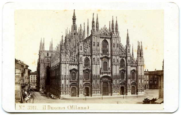 Giorgio Sommer (1834-1914) - The cathedral in Milan. Catalogue # 3911.